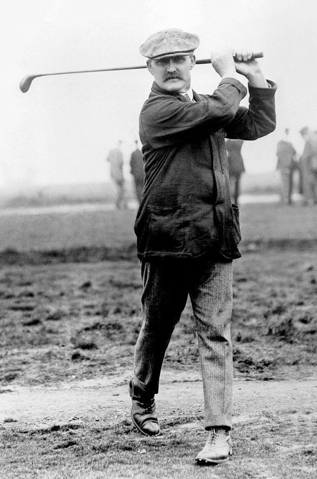 Golf J.H. Taylor hitting the ball - 1912